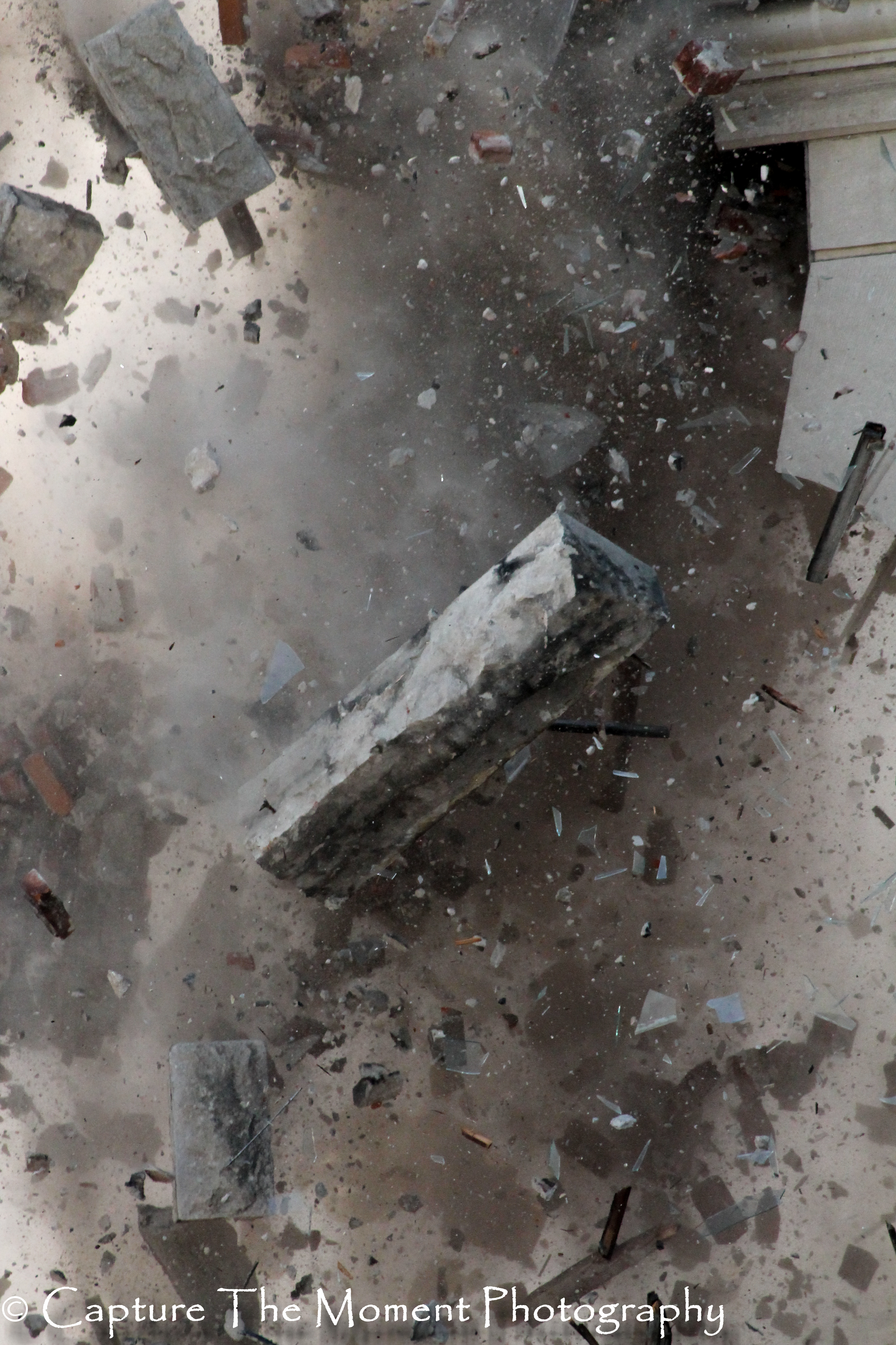 Demolition of the Hotel Sterling — in Wilkes Barre, Pennsylvania.